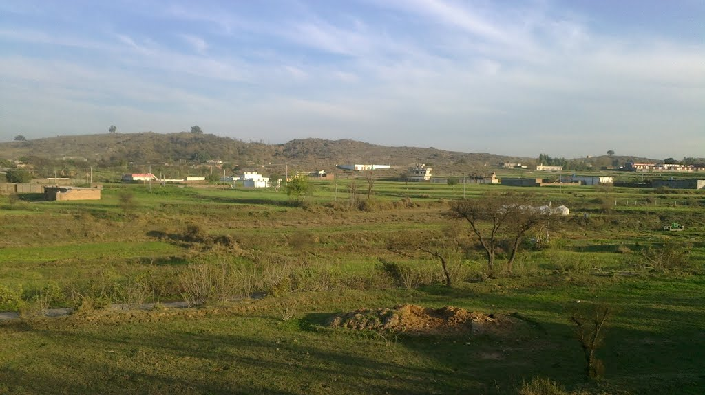 Village Picture -Panoramia